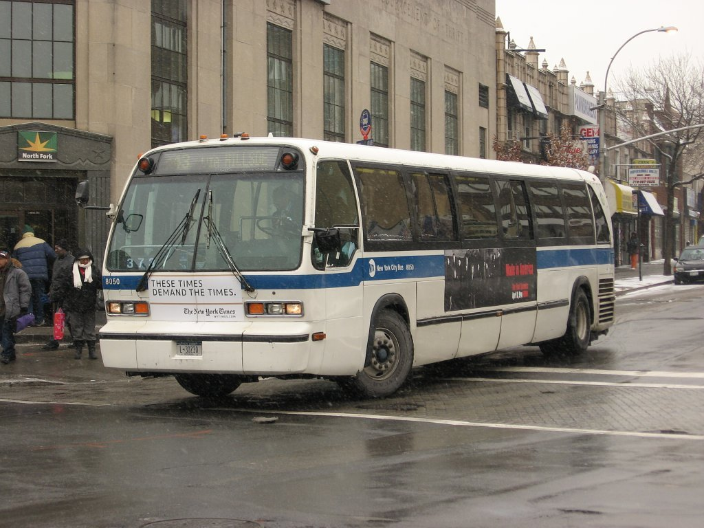 NYCTA bus 8050 in Jamaica, New York.